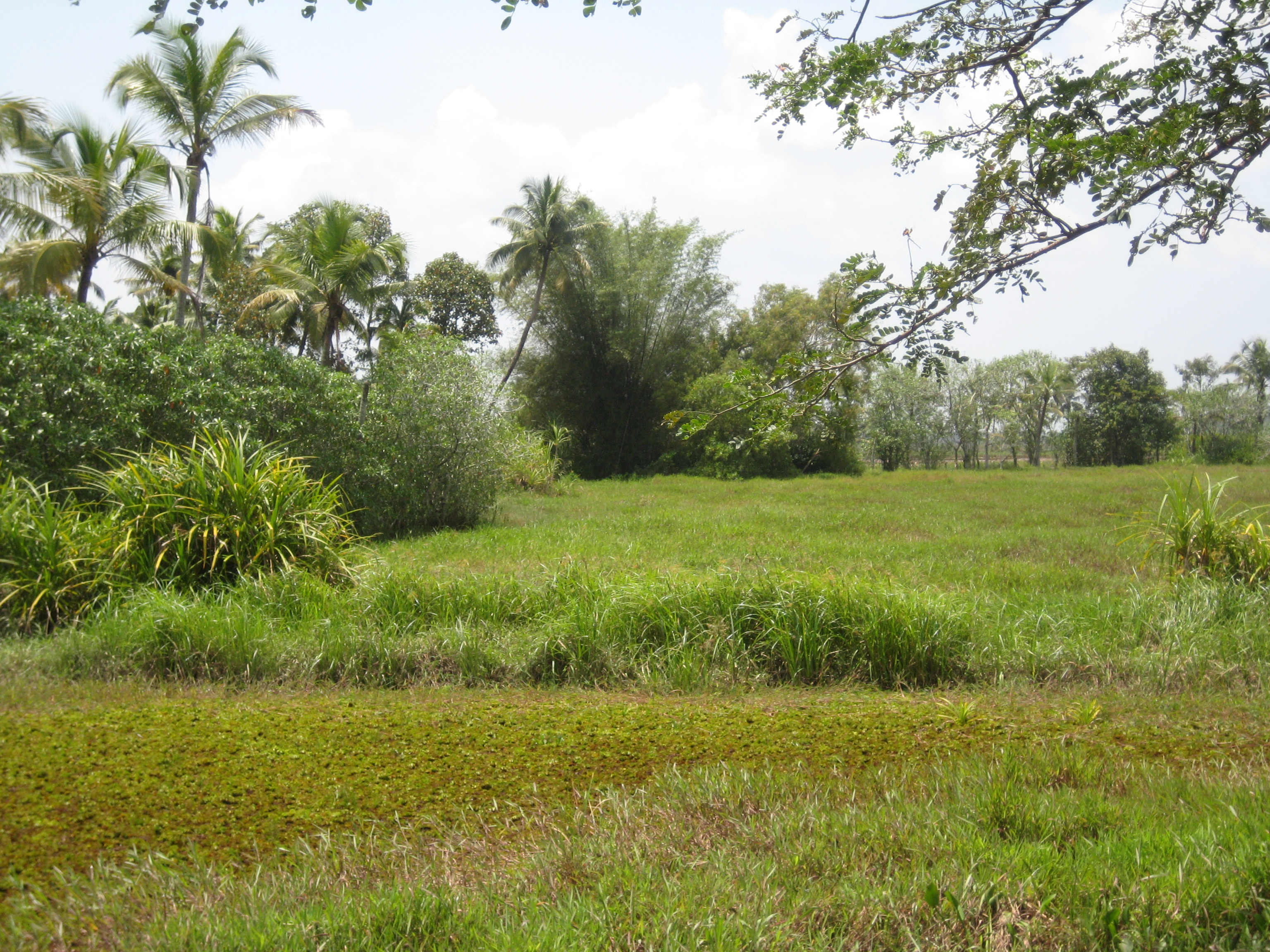 Vinod. N., Self taken photo of the Ayamkudy Village using my Digital Camera. I am working in an MNC in Chennai. I have contributed many pages to Wikipedia